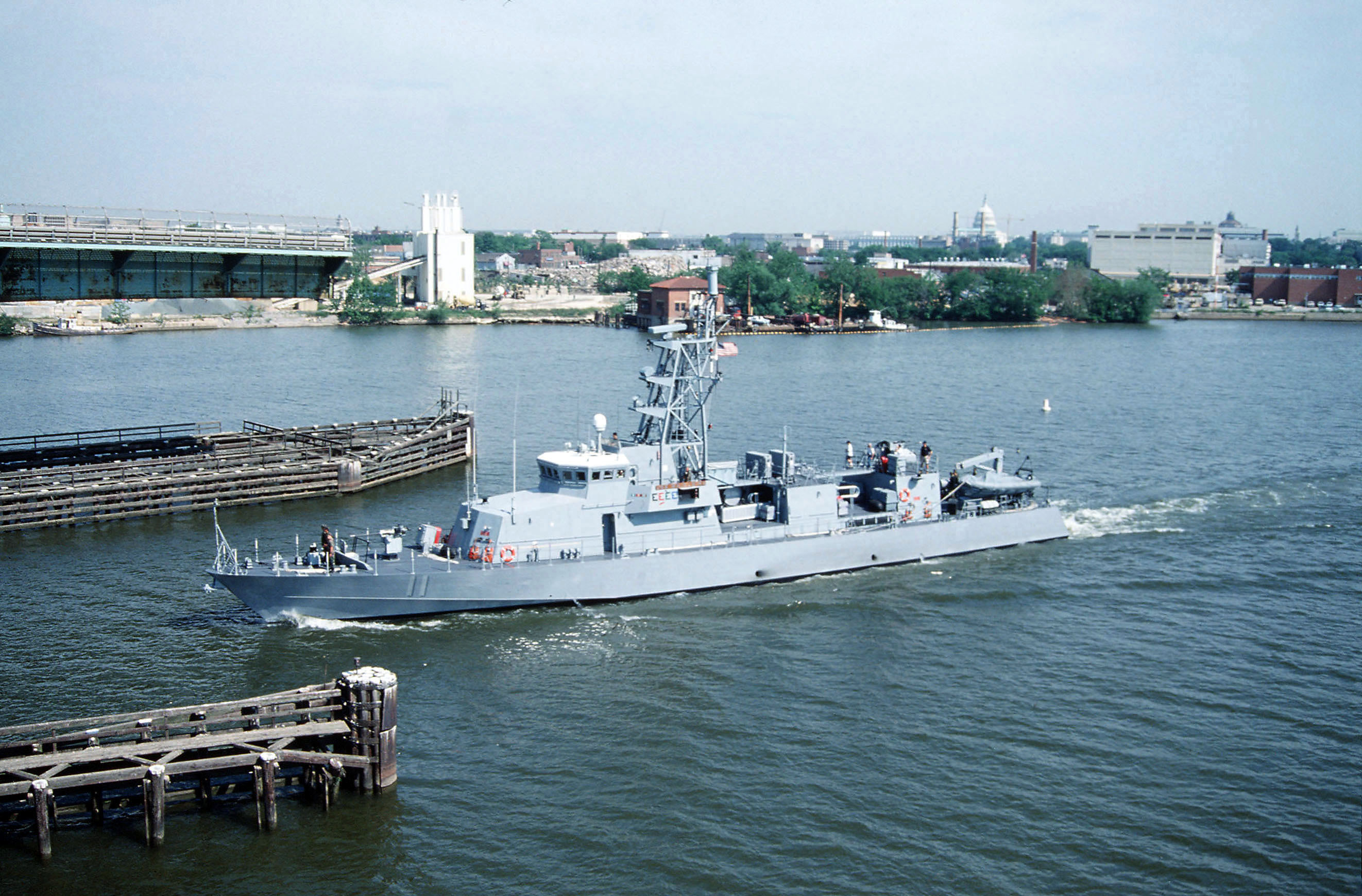 Port bow view of the US Navy (USN) Cyclone Class Coastal Defense Ship, USS WHIRLWIND (PC 11), underway on the Anacostia River passing into the open draw of the Frederick Douglas Memorial Bridge shortly after departing the Washington Navy Yard.